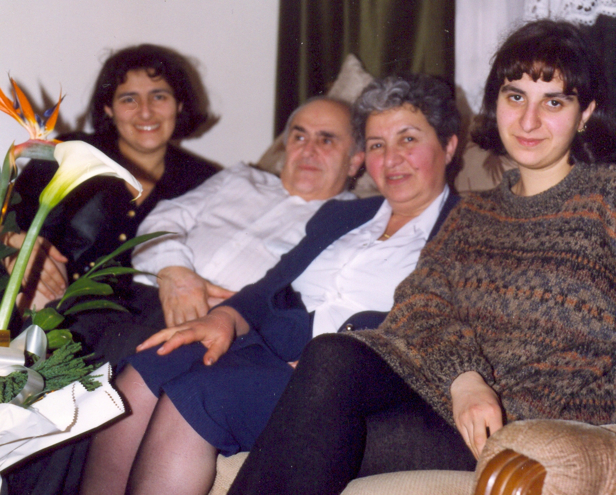 Edvard Chubaryan 75th Birthday, 05 May 2011 05, No. 52